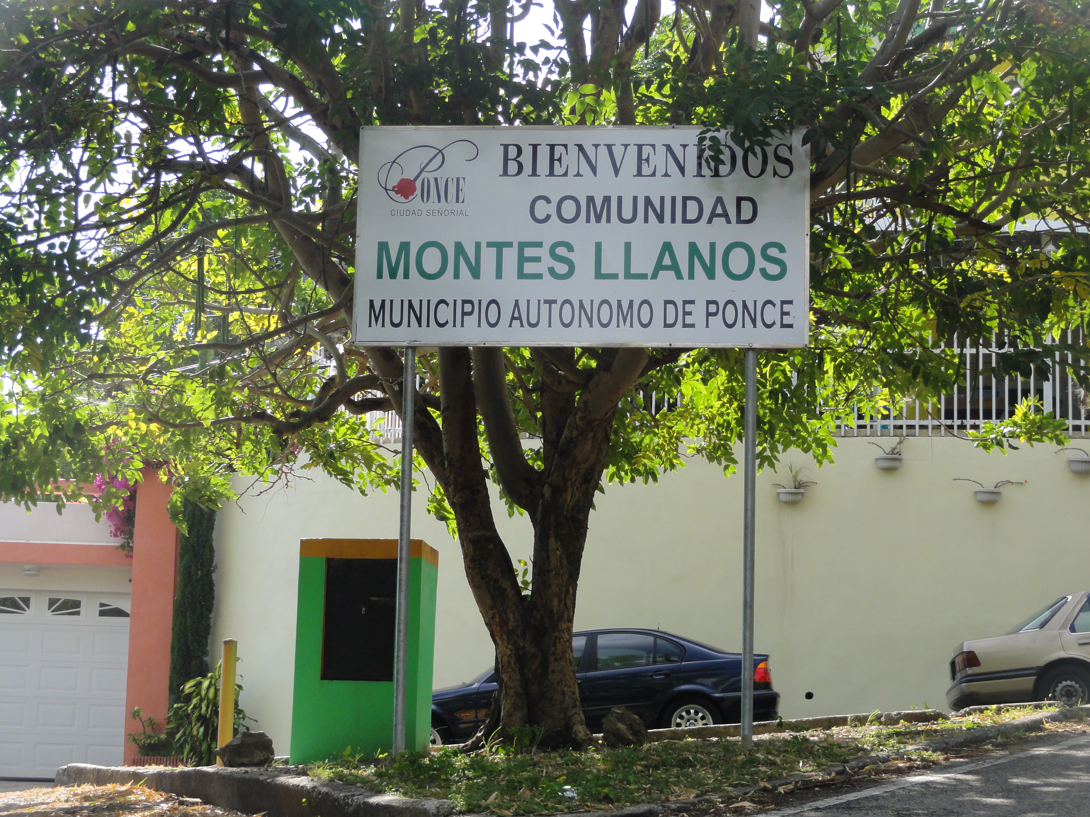 Letrero en la PR-505 (INT PR-504) marcando entrada al Bo. Montes Llanos, Ponce, PR (DSC07288)